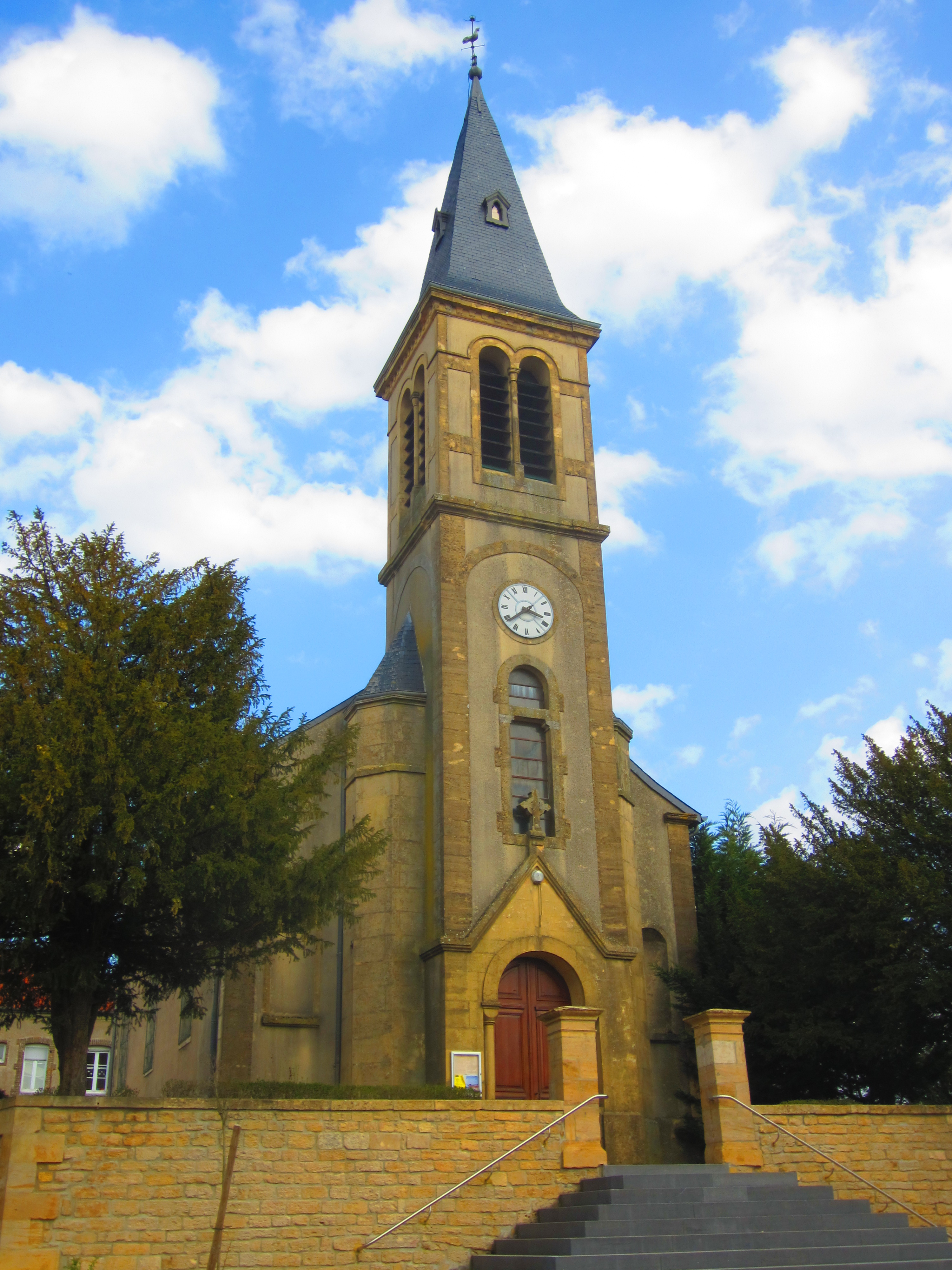 Montigny Chiers church